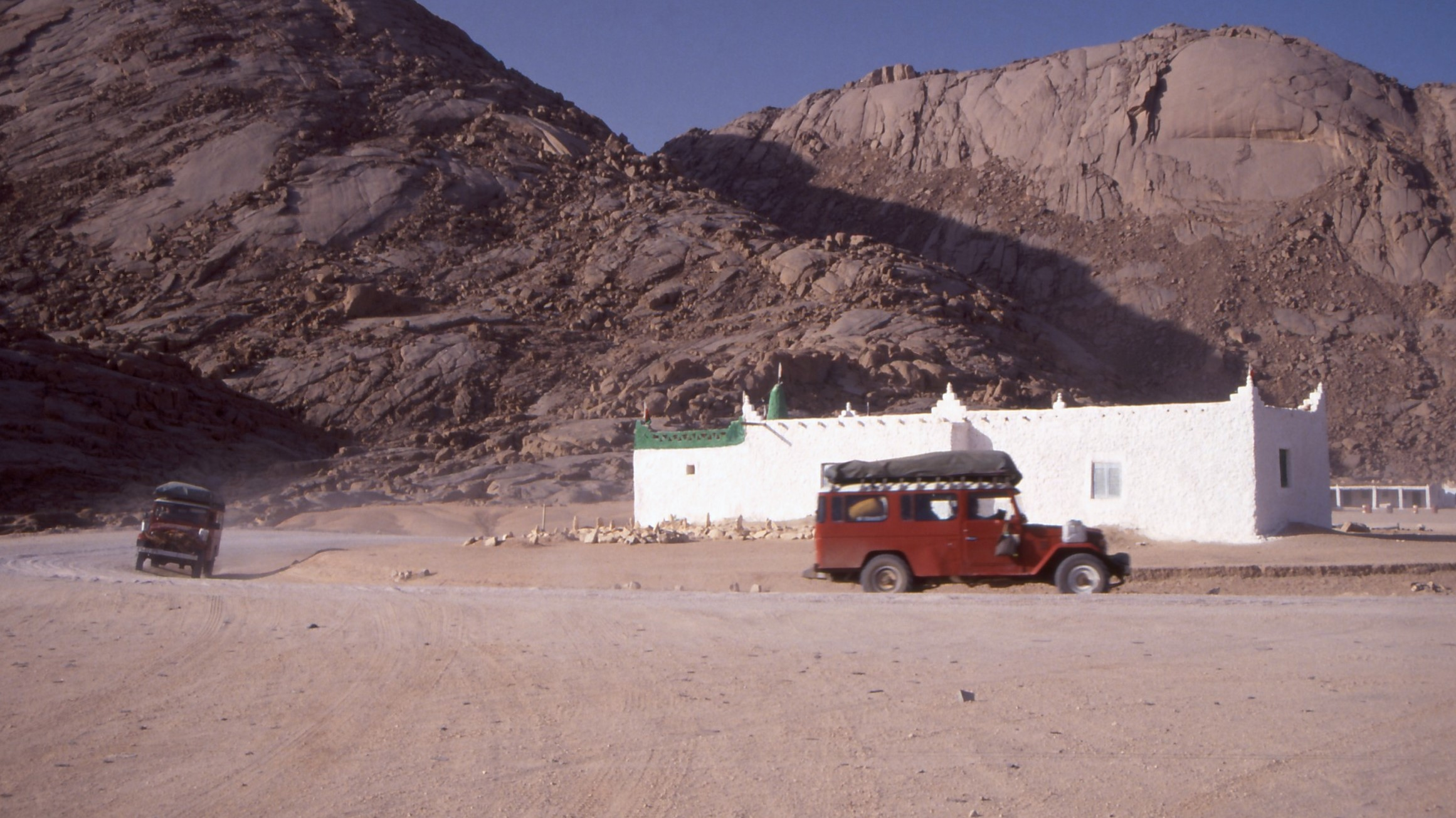 Tomb of Marabout Sidi Moulay Hassan at the Hoggar route in Algeria, which traditionally is being circled three times